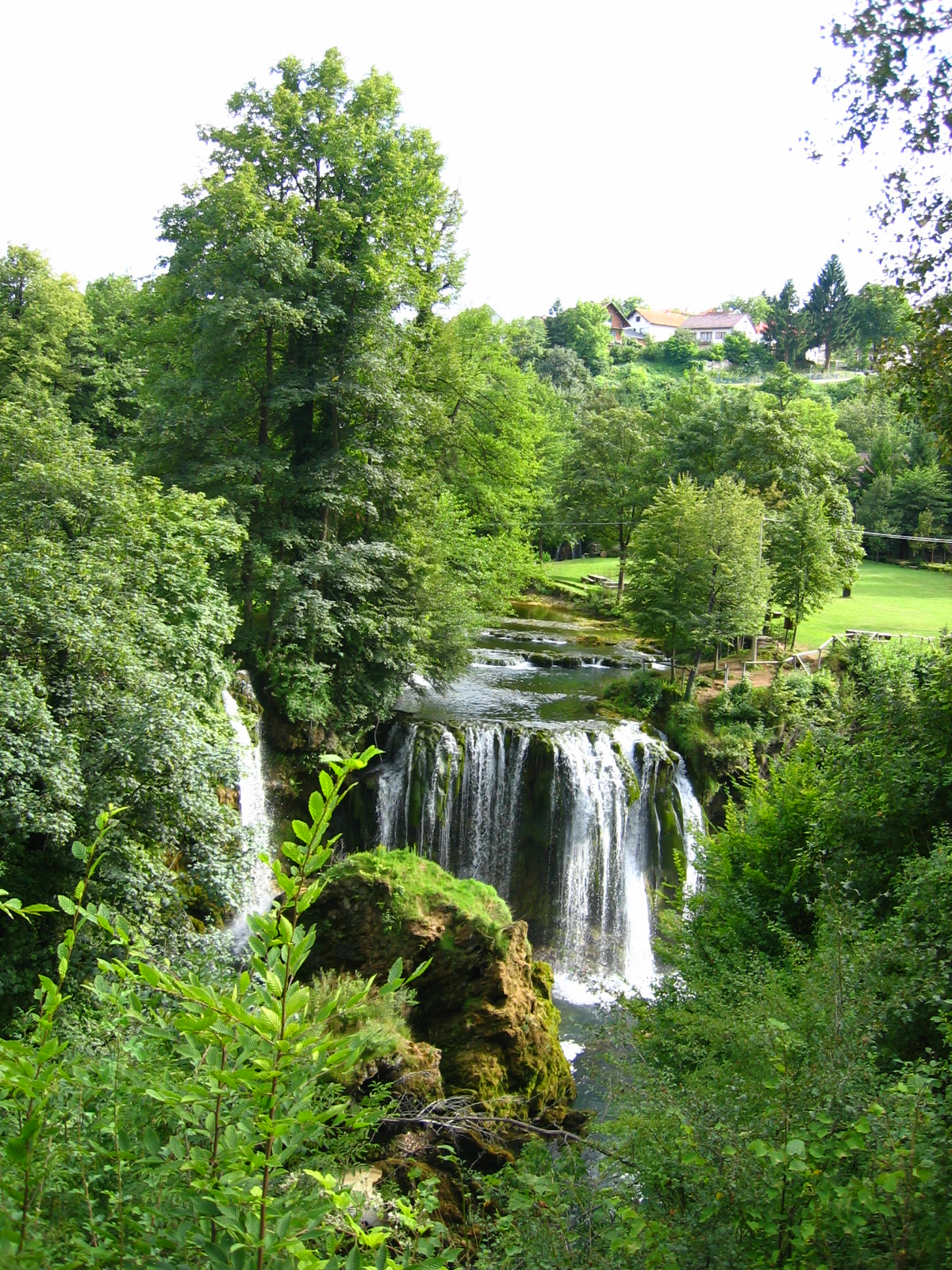 Waterfall, Rastoke, Slunj, Croatia